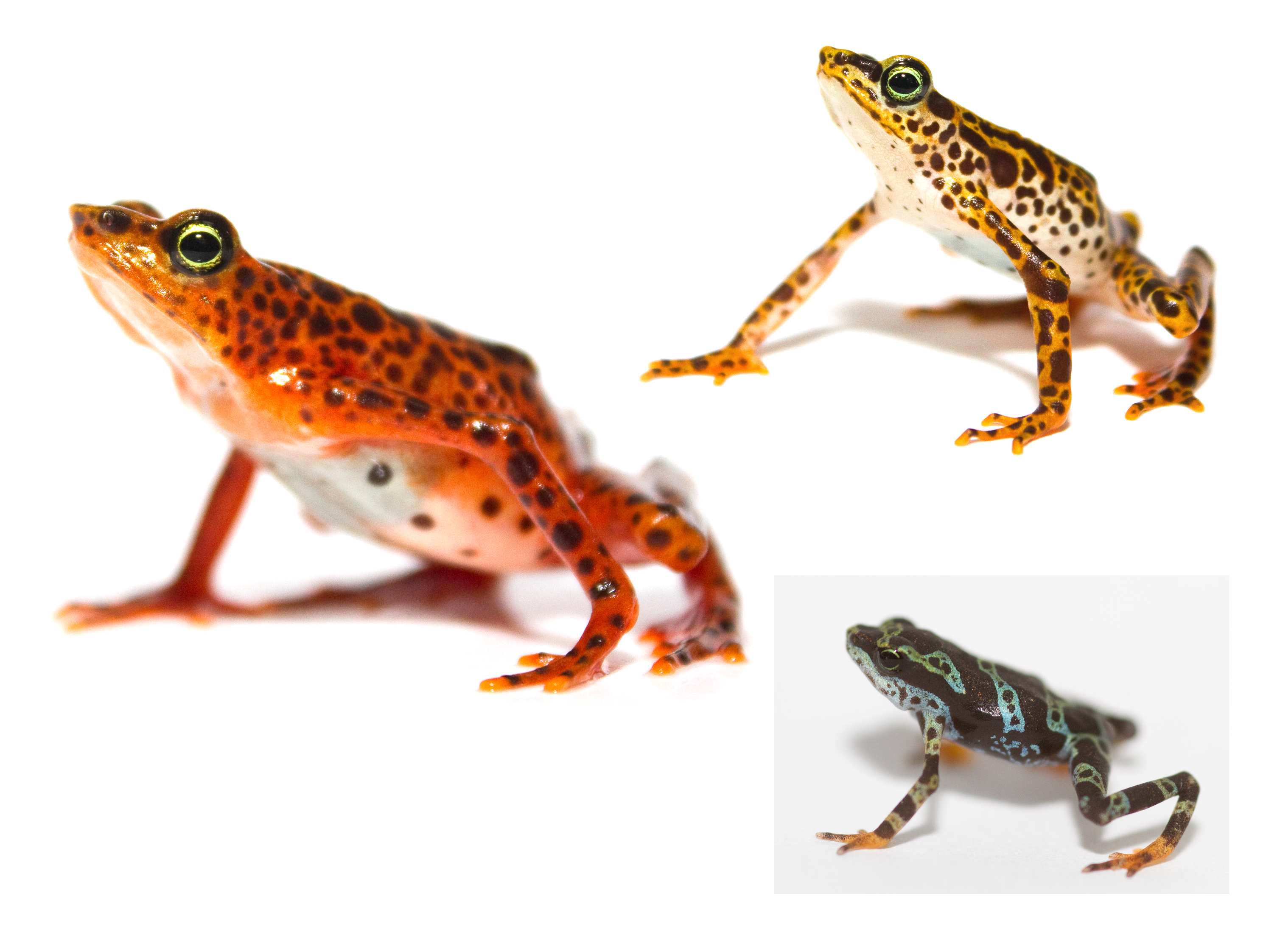 Toad Mountain Harlequin frog. Female on the left, male on the right, juvenile bottom.